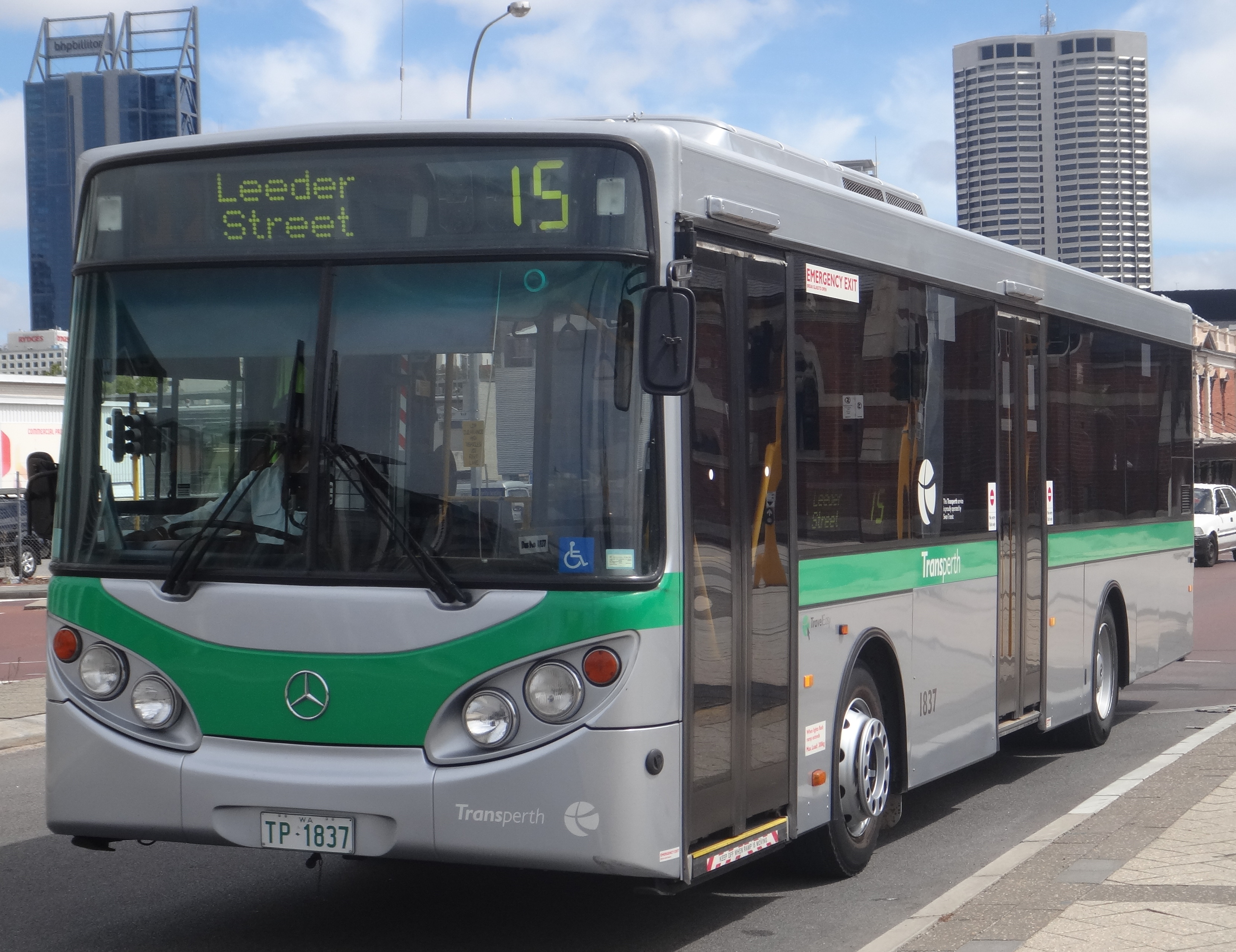 Transperth Volgren CR225L bodied Mercedes-Benz O405NH diesel on route 15